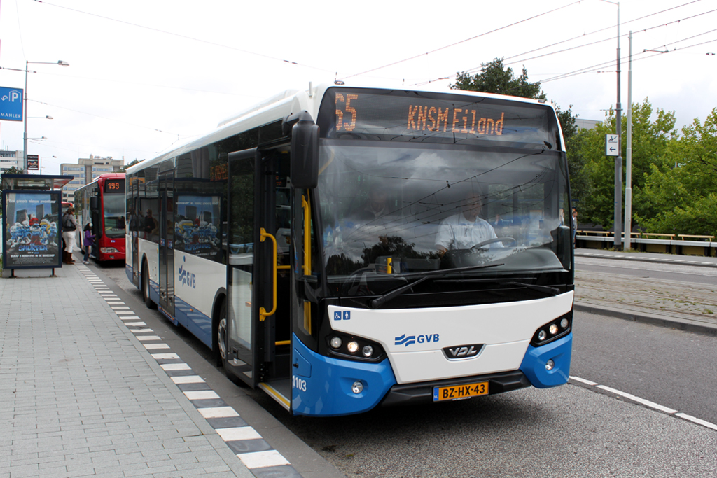 VDL Citea SLF 120 low-floor bus (reg. BZ-HX-43, #1103) in Amsterdam, Netherlands. Built 2011, Gemeentevervoerbedrijf Amsterdam (GVB) operator.